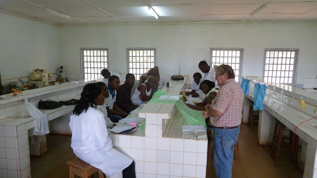 Travaux Pratiques de Médecine